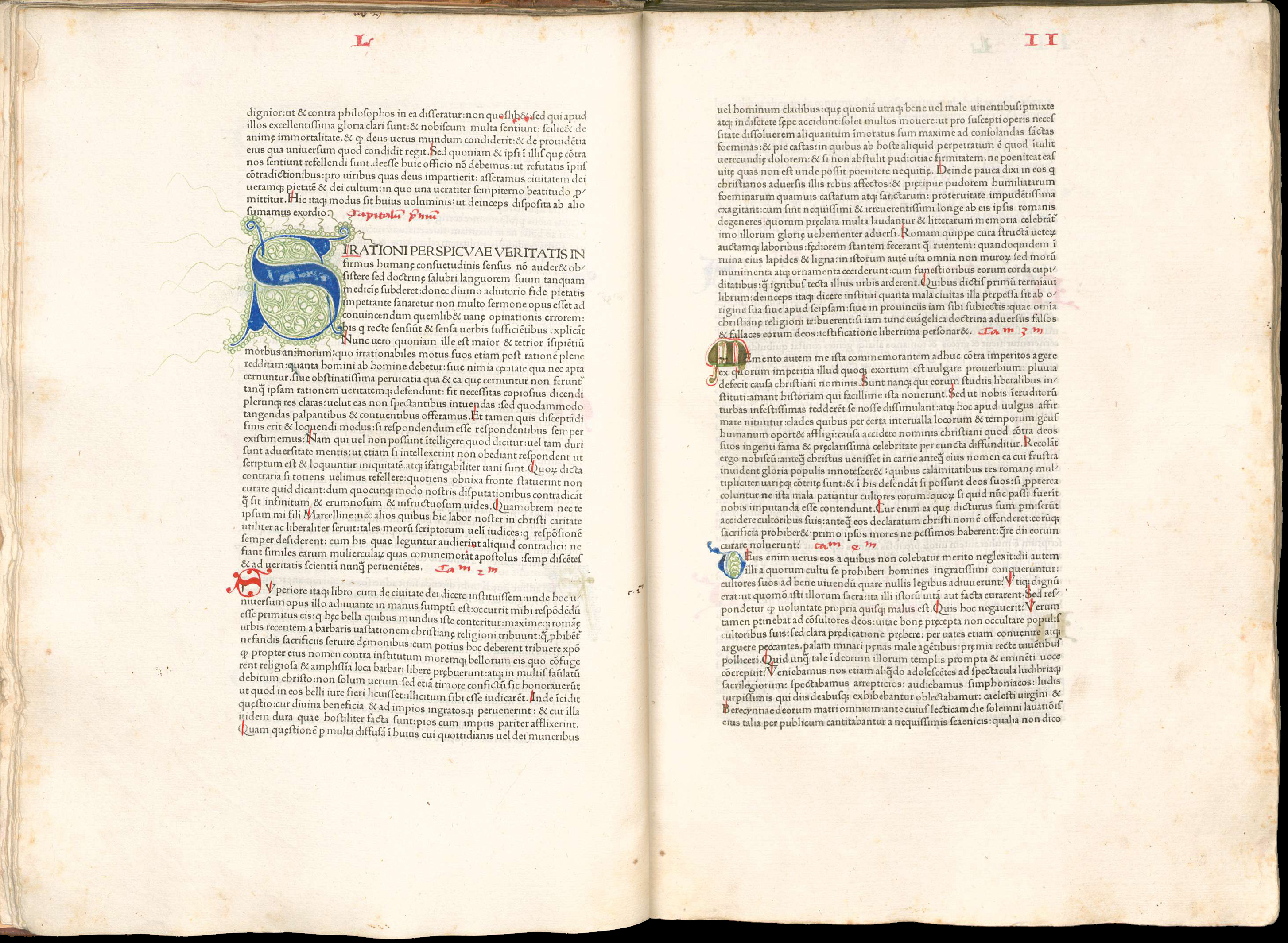 Spread from the "De Civitate Dei" by Augustine Aurelius, printed by Johann and Wendelin von Speyer in 1470. Copy of the Bayerische Staatsbibliothek.